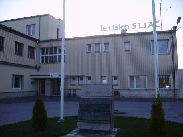 Sliac (Tri Duby) Airport Terminal, Slovakia